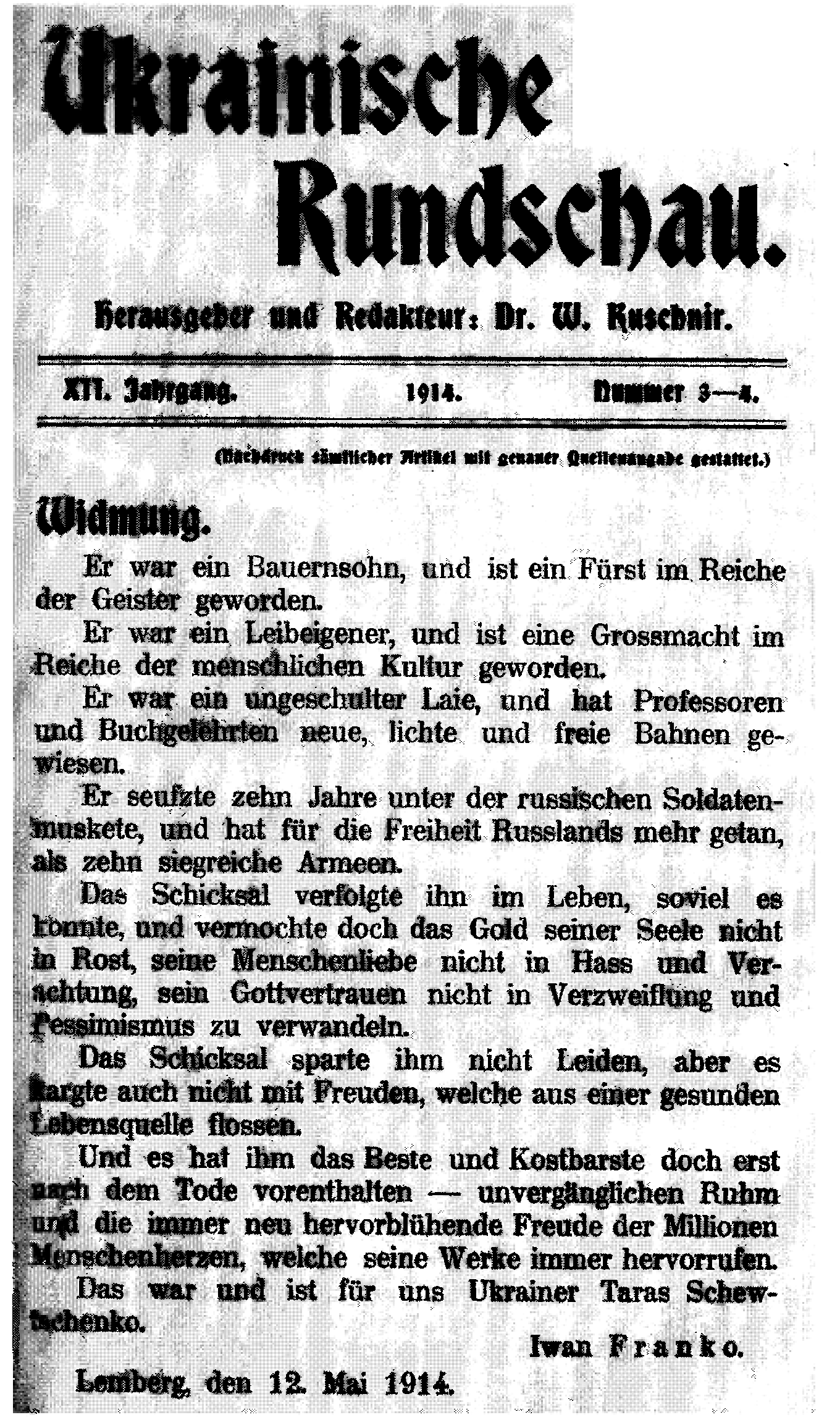 Ivan Franko's dedication to 100th anniversary of Taras Shevchenko (1914)